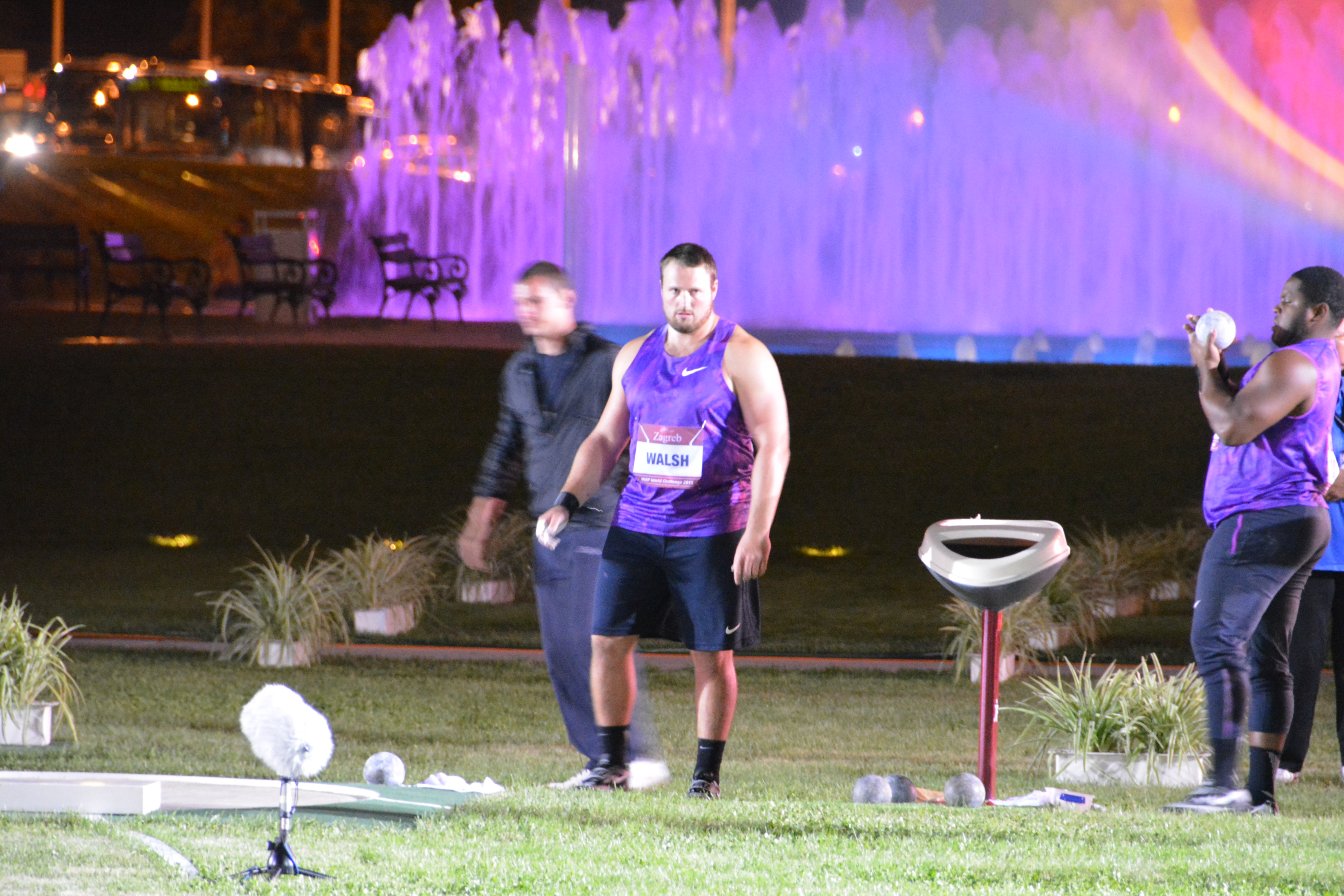 Tomas Walsh at the shot put event, 2015 Hanžeković Memorial in Zagreb.